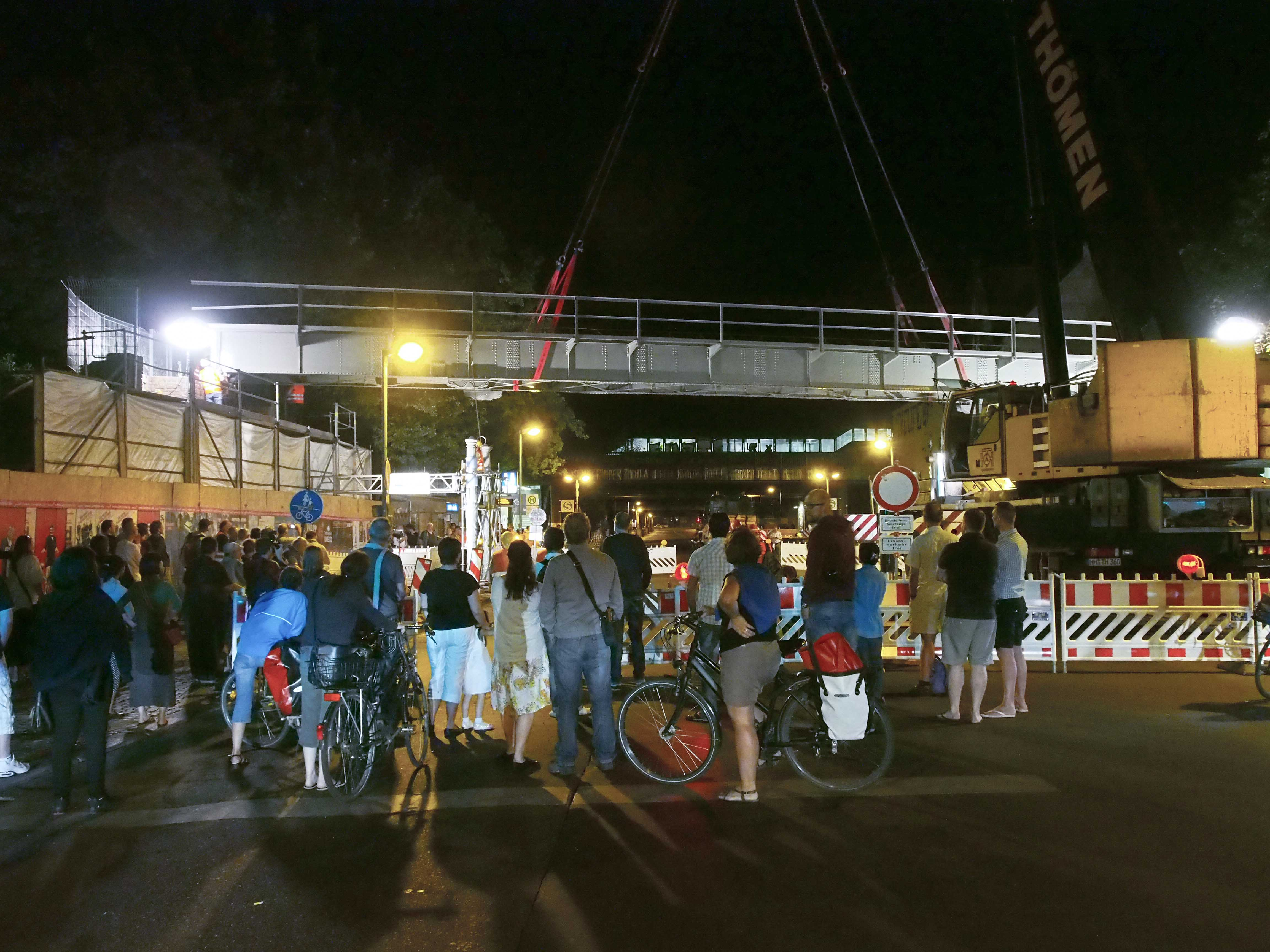 Bridge 5, renovation of a historic bridge, built 1883, renovated 2012, Berlin, Kreuzberg, Yorckbruecken, Heritage, Railway